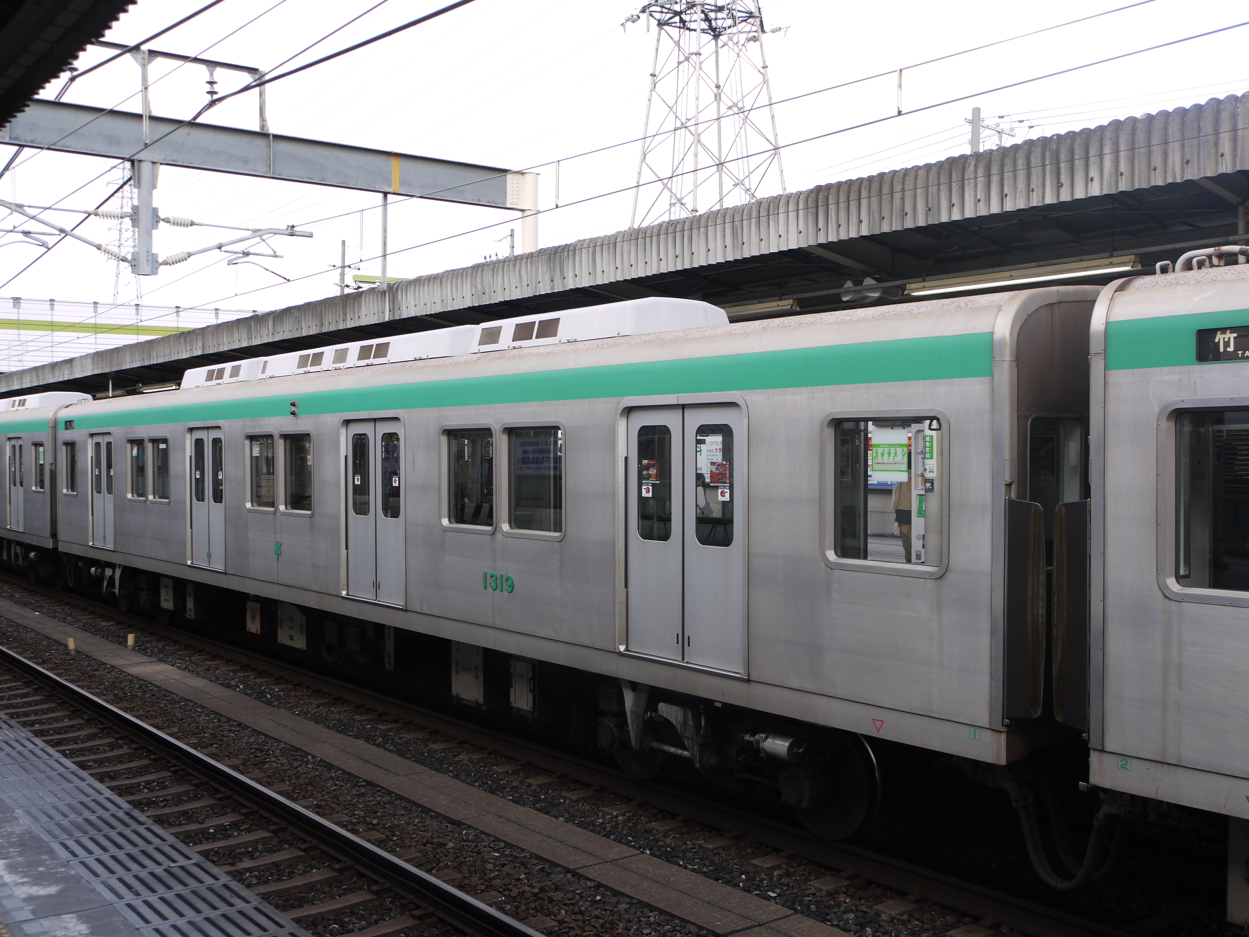 Kyoto subway 1319 belongs to 10 series